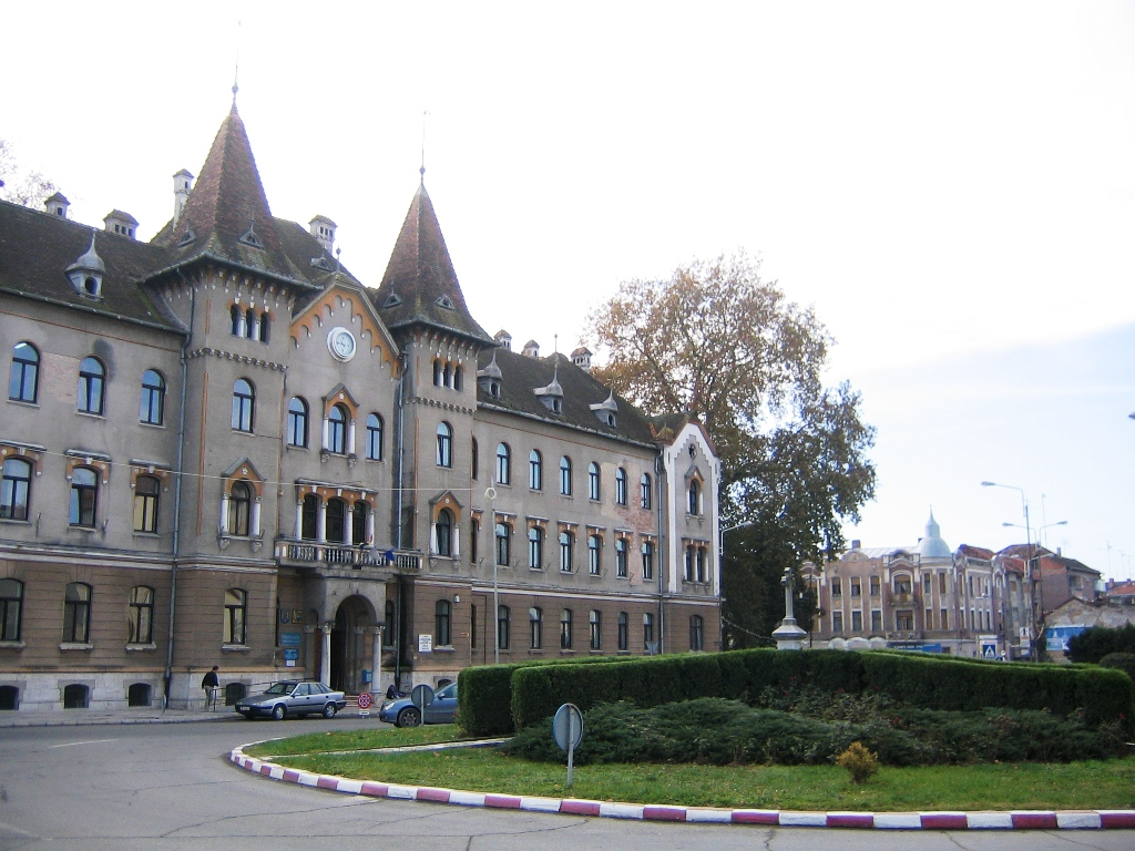 The City Council building, Lugoj, Romania